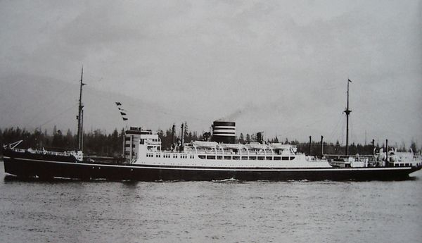 Picture of the NYK Line Hikawa Maru class ship Hie Maru (Hiye Maru)